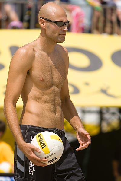 Phil Dalhausser prepares to serve at an AVP tournament in 2007.